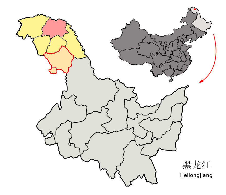 Location of Tahe County (pink) and Daxing'anling Prefecture (yellow) within Heilongjiang Province of China. Jiagedaqi and Songling Districts (light salmon), under Heilongjiang administration, nominally belong to Inner Mongolia. Map drawn in november 2007 using various sources, mainly : Heilongjiang Province administrative regions GIS data: 1:1M, County level, 1990 Heilongjiang Counties map from Map of Daxing'anling Prefecture